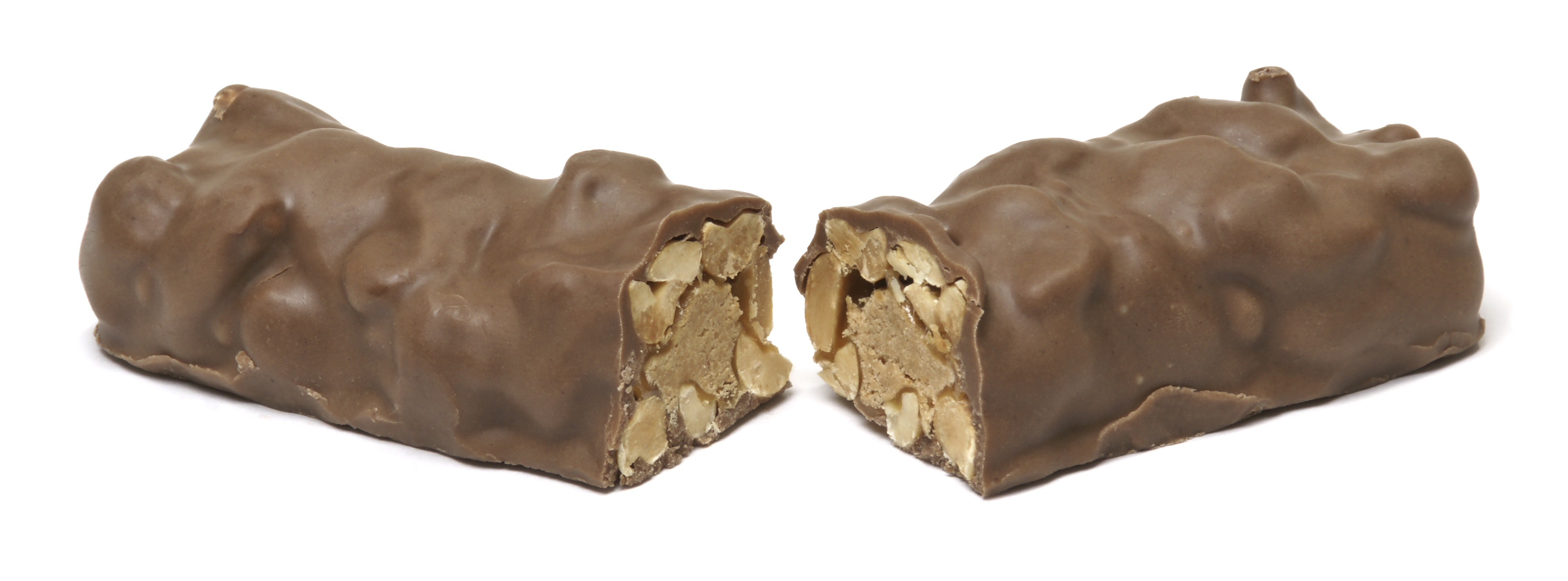 A NutRageous candy bar that has been split in half. Made by Hershey and part of the Reese's Peanut Butter line.